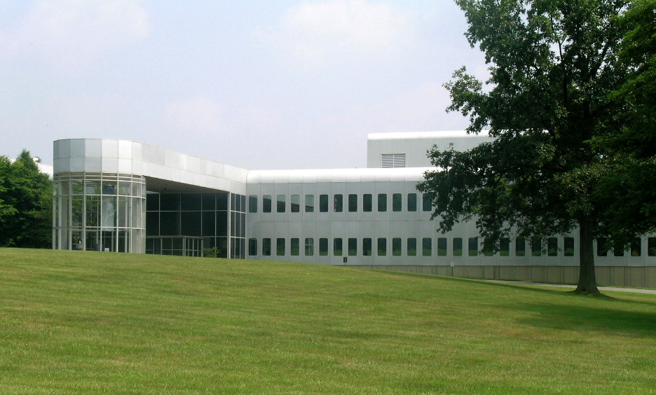 An exterior image of COMSAT Laboratories, Clarksburg, Maryland. The High Tecnology-style building was designed by Cesar Pelli. It was constructed in 1969. This site was selected for Endangered Maryland in 2007.